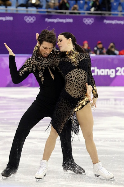 Tessa Virtue and Scott Moir at the 2018 Winter Olympic Games in PyeongChang